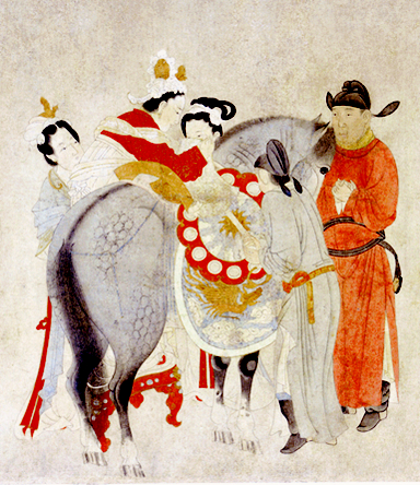 Detail of Yang Guifei Mounting a Horse, by Qian Xuan (1235-1305 AD).